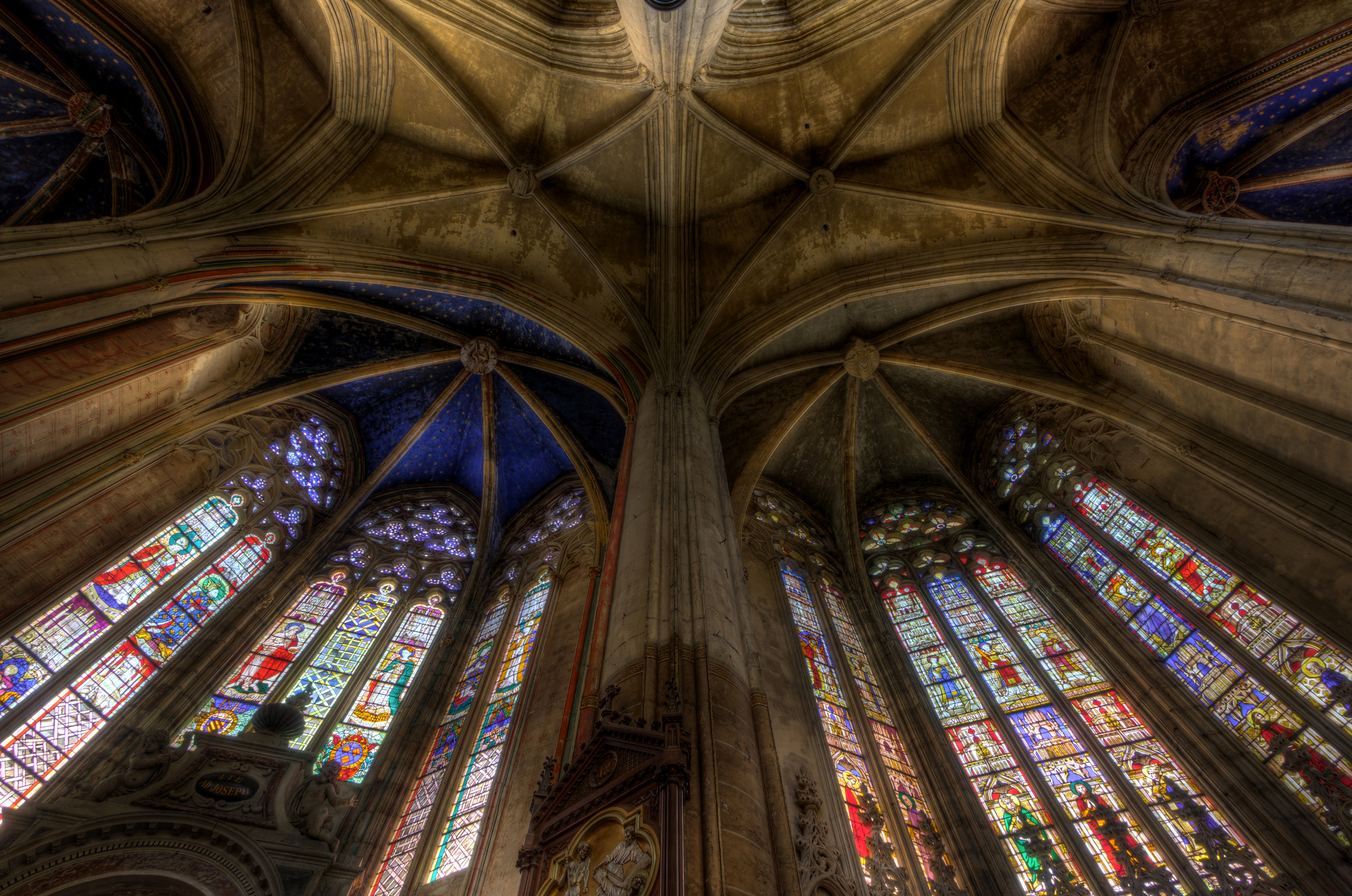 Ceiling of ambulatory in Cathedral Saint-Etienne in Toulouse